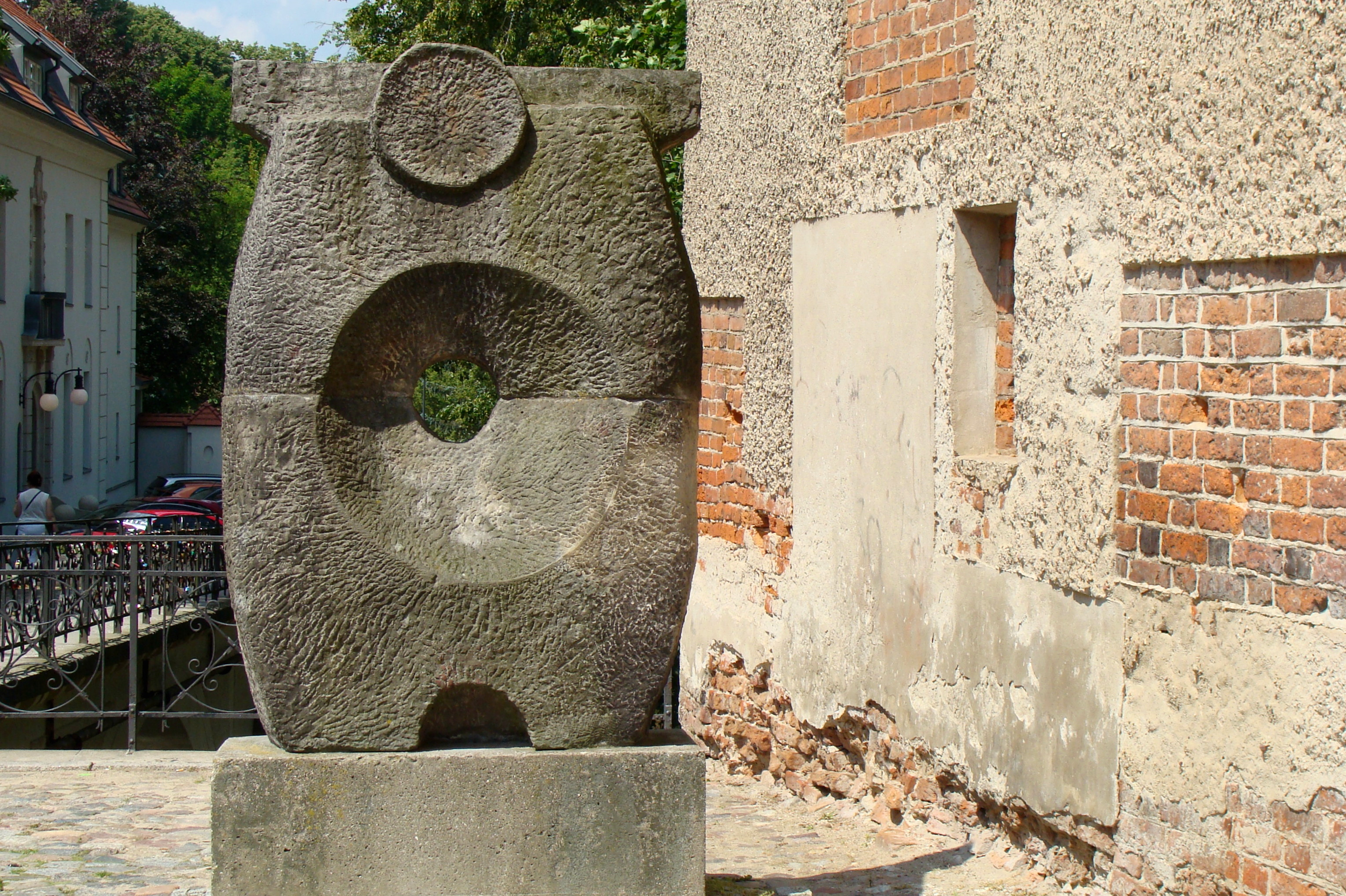 "Solar System" sculpture in stone by Jean Marie Bechet, 1972. It was made during the 2. International Outdoor Session called "Warmia the land of Copernicus".